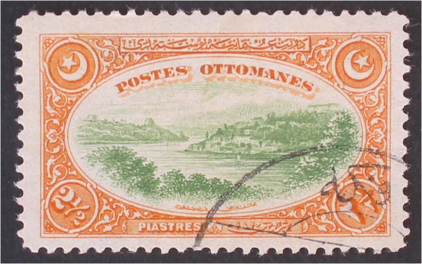 A stamp of the Ottoman Empire